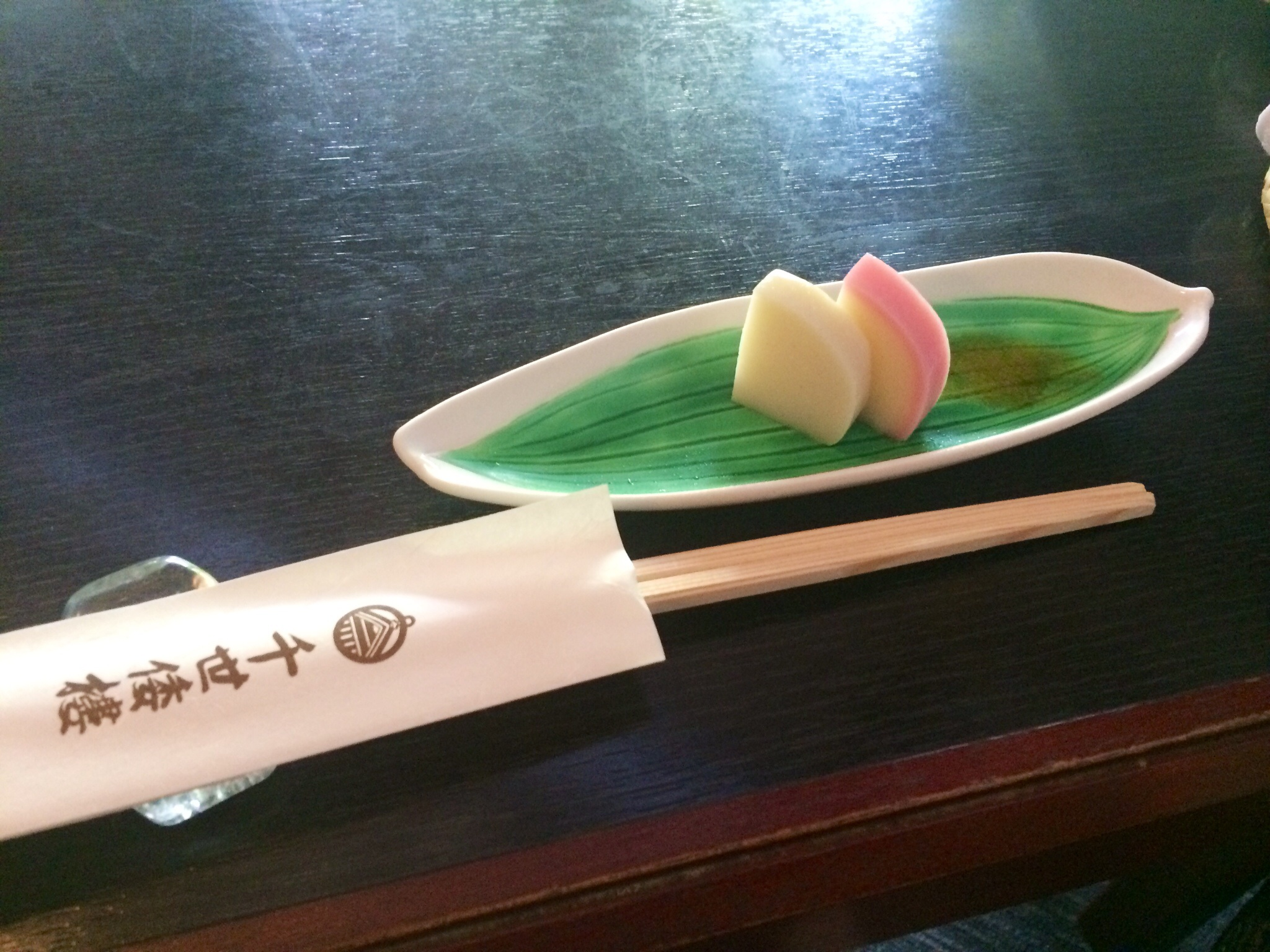 Fishcake(kamaboko) in Odawara,Kanagawa